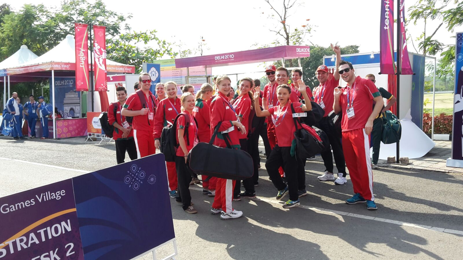 Netherlands national rollball team as Team Wales in film Dangal